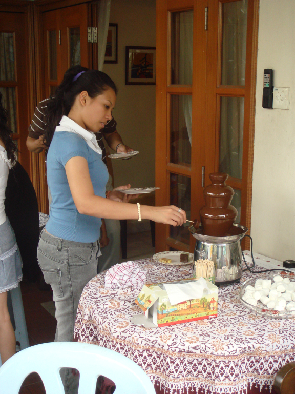 A woman using a tabletop chocolate fountain